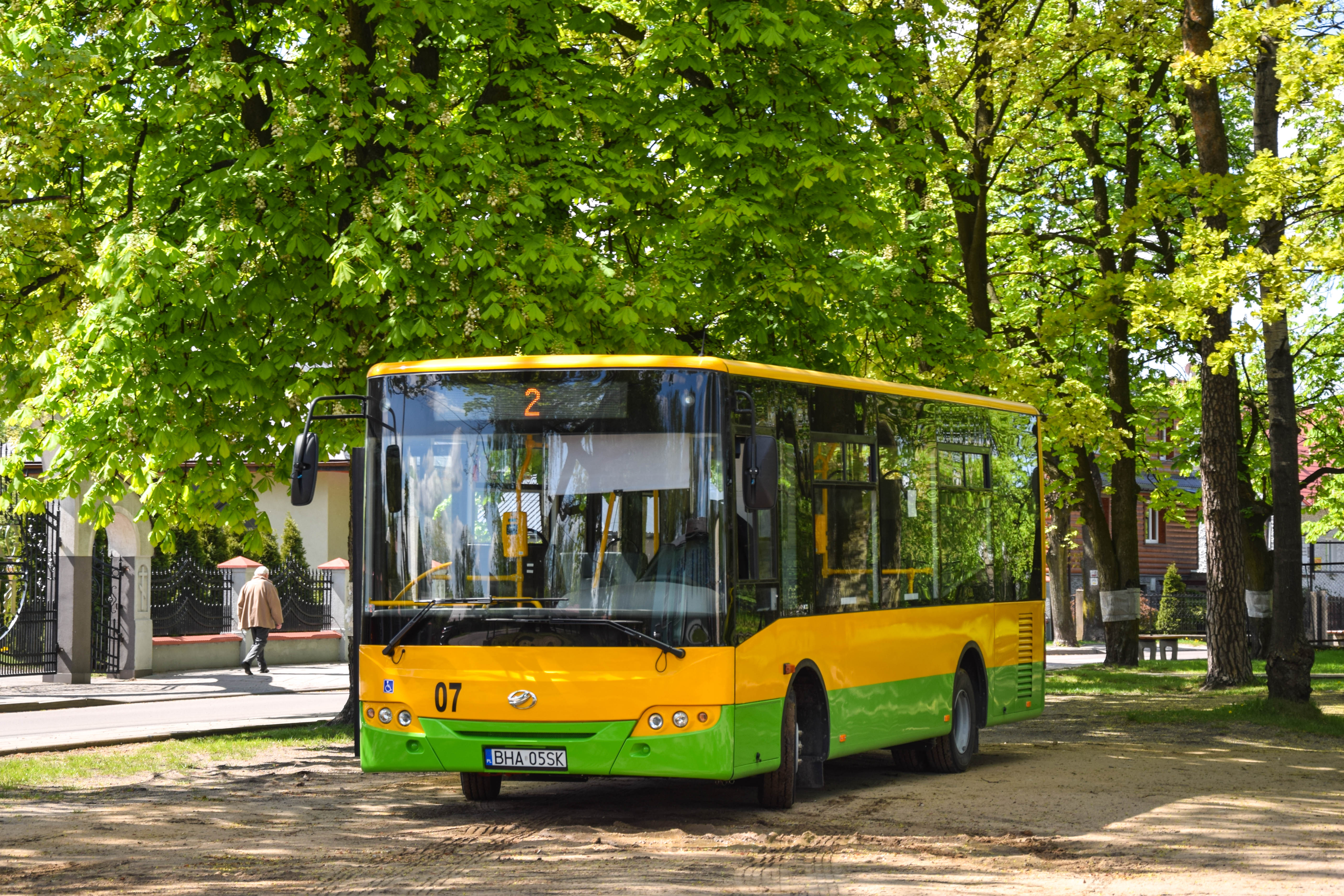 Ukrainien ZAZ bus in Poland